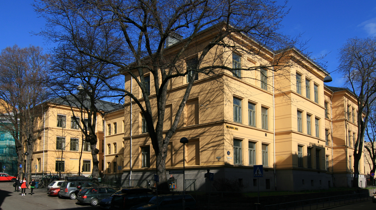 Møllergata skole, Oslo, Norway. Oldest parts from 1860. Rebuilt 1893. Architect: Victor Nordan.